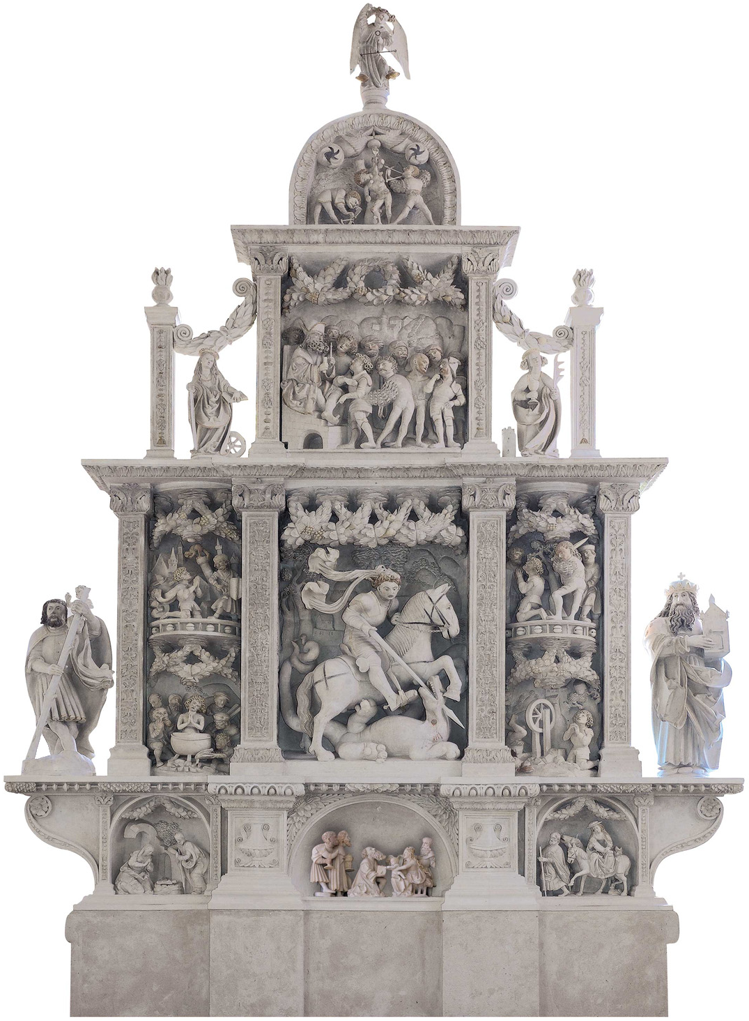 Parish church of Saint George in Svätý Jur, Slovakia - Main Altar (1527)